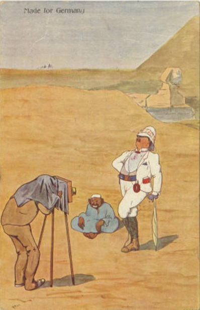 Satirical postcard depicting tourists in Egypt